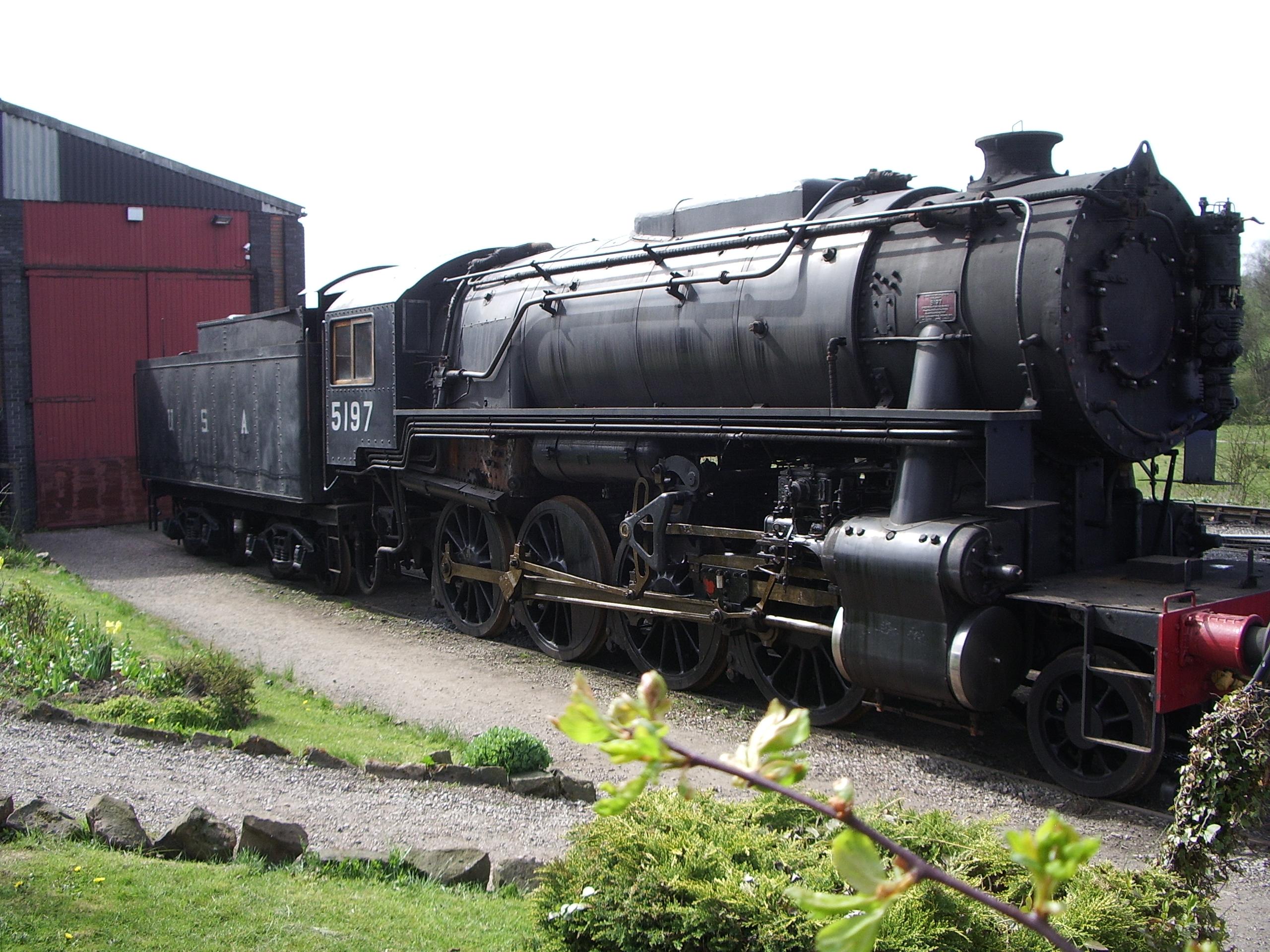 5197 at Cheddleton, Staffordshire. Made in the USA these engines were used by the United States Army Transportation Corps in WW2.